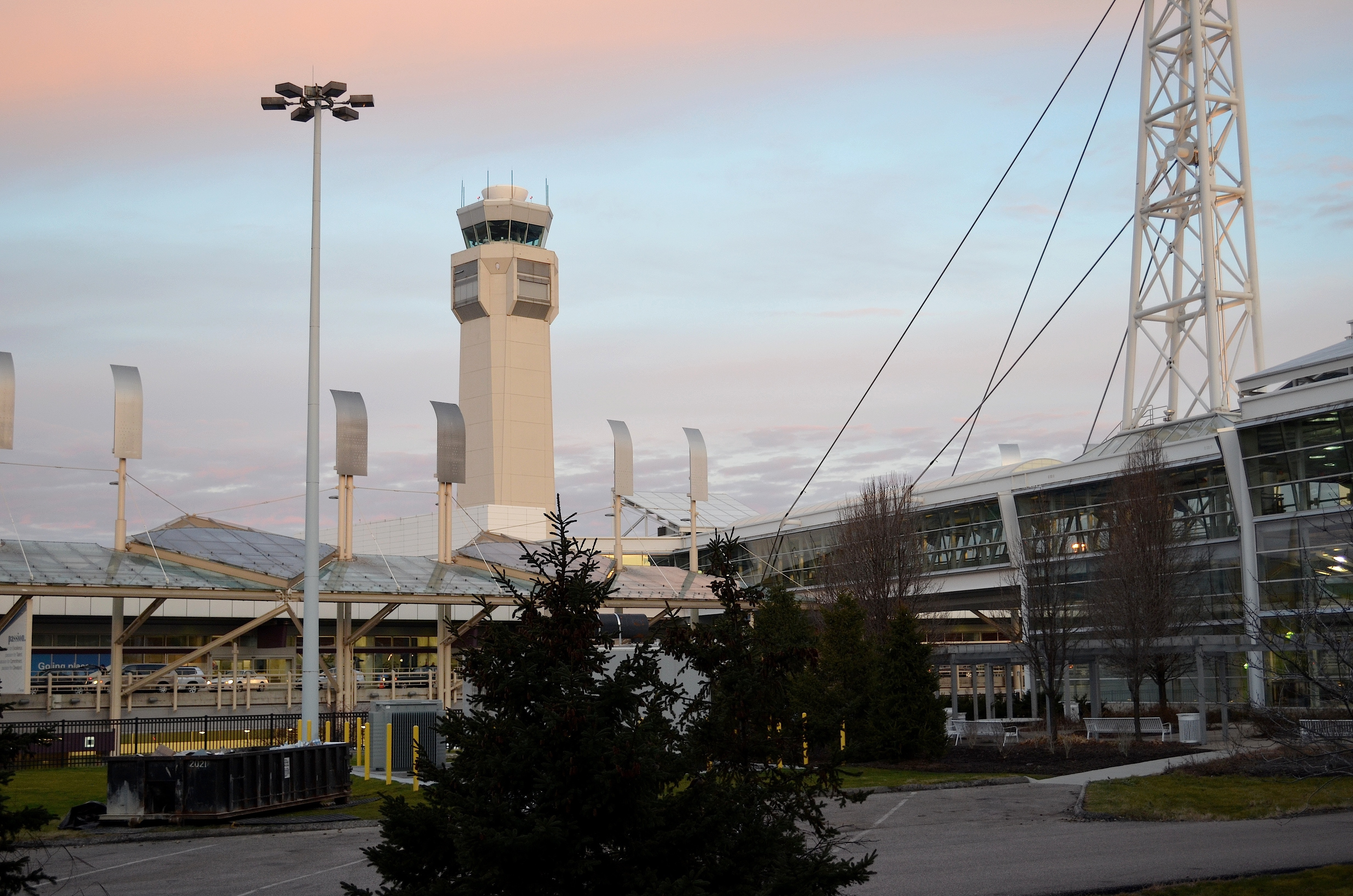 Cleveland Hopkins International Airport Control Tower seen during sunset.